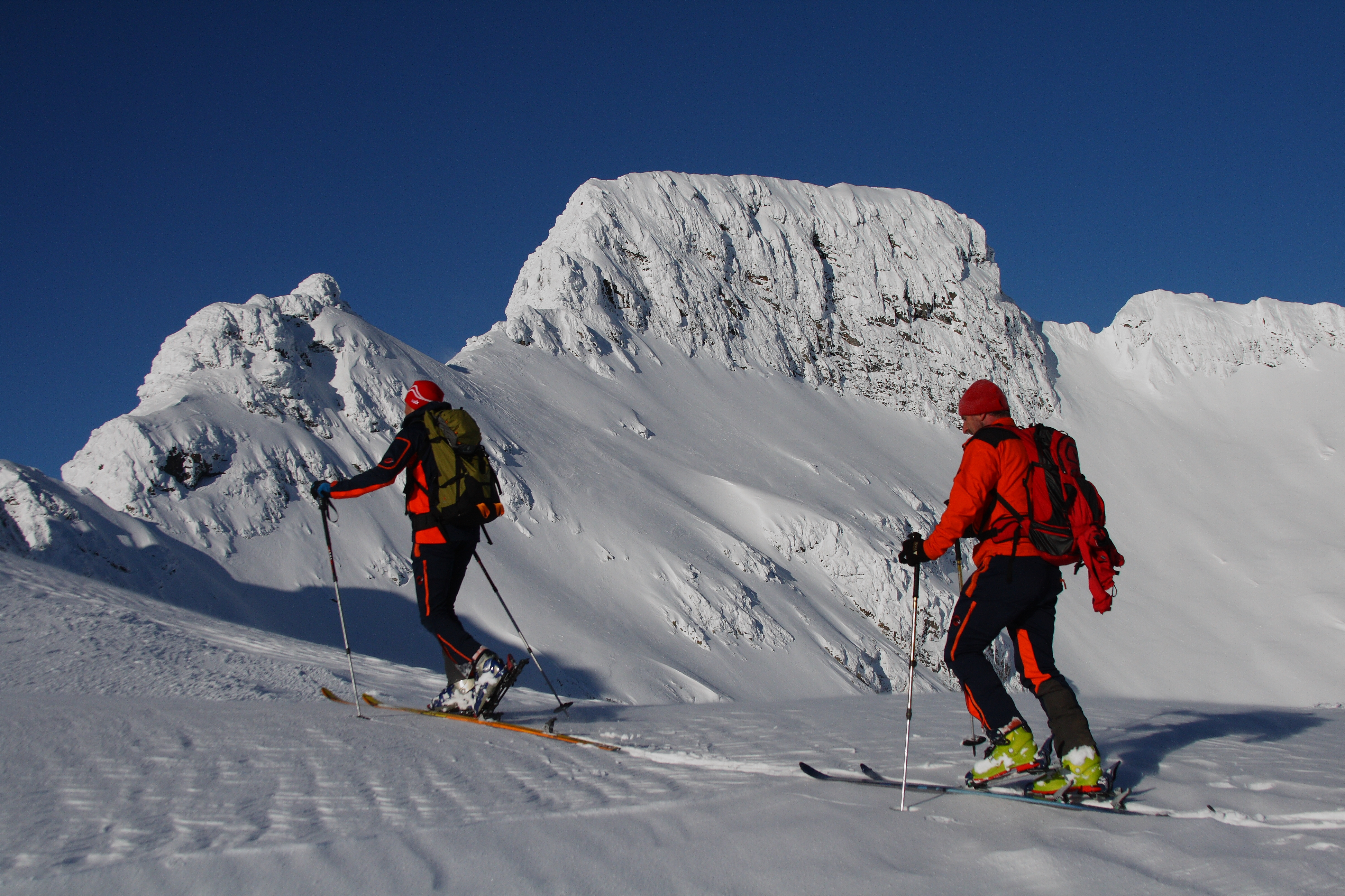 Elendberg, Rohrmoos-Untertal, Styria, Austria